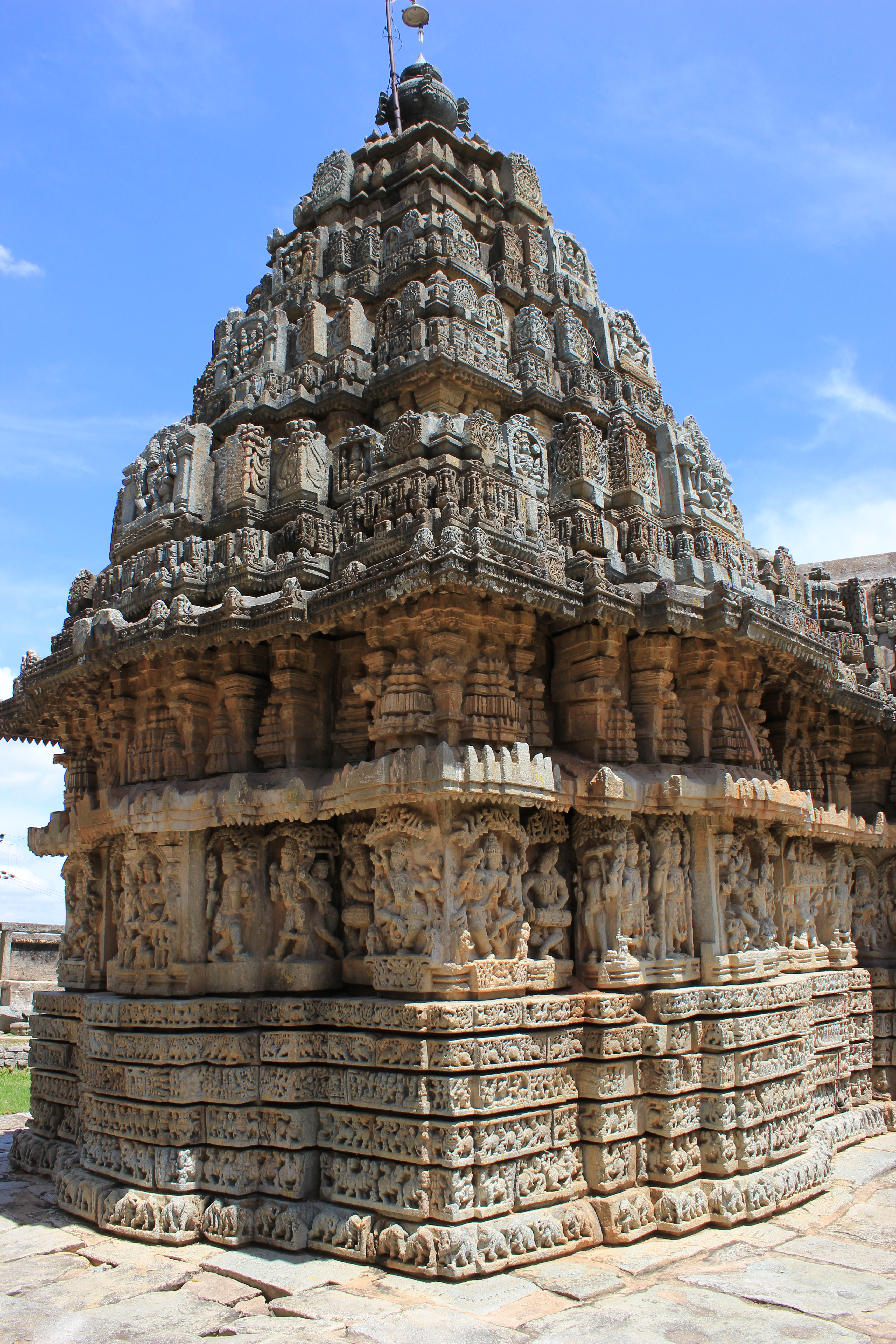 The Mallikarjuna temple is located in Basaralu, Mandya district, Karnataka state, India. The temple was built around 1234 A.D. during the rule of the Hoysala Empire King Vira Narasimha II